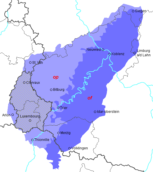 Outline of the moselfrankish dialects and the luxembourgish language